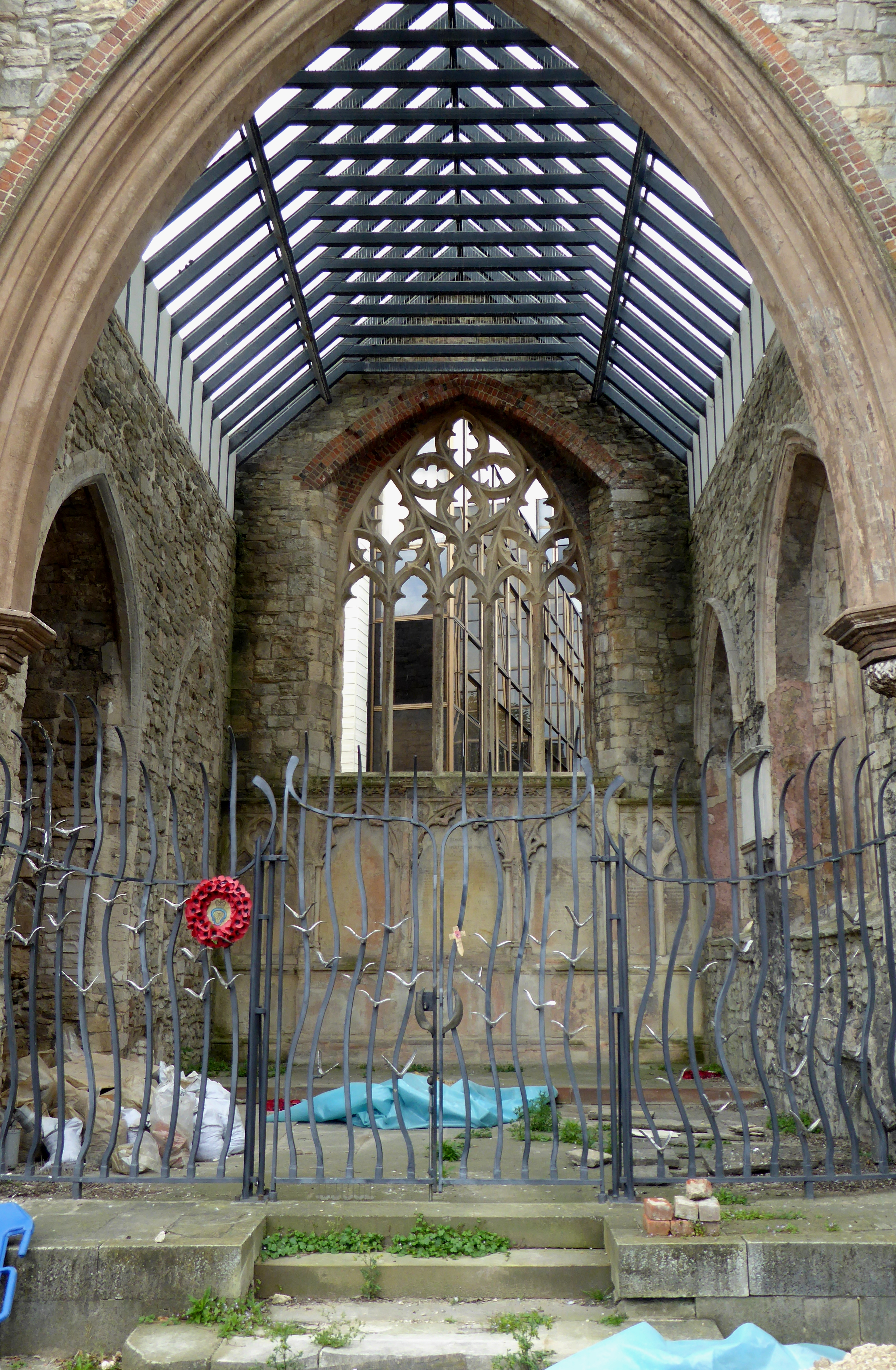 The chancel of Holyrood Church in Southampton.